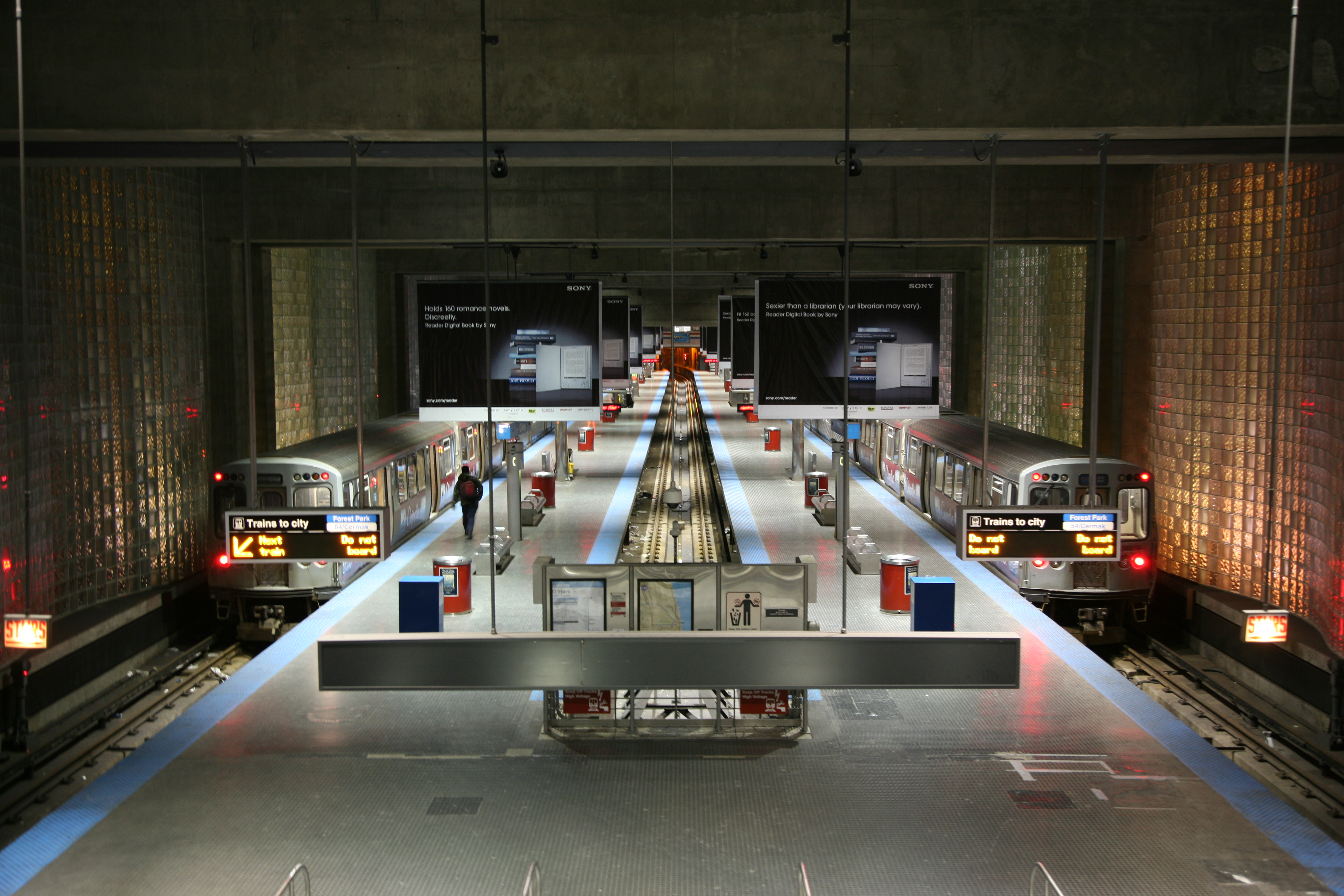 CTA blue line station at O'Hare international airport, Chicago